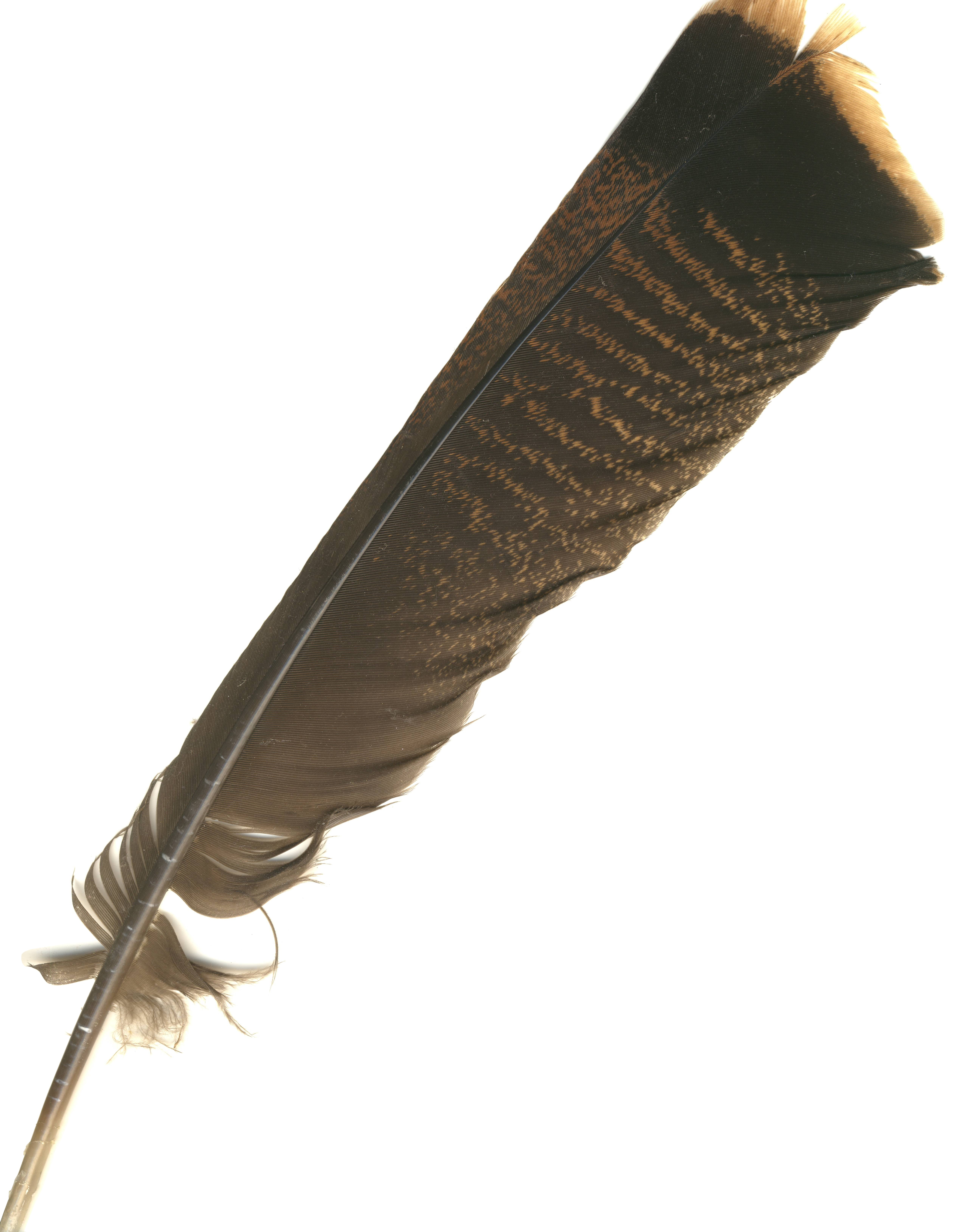 Large turkey feather